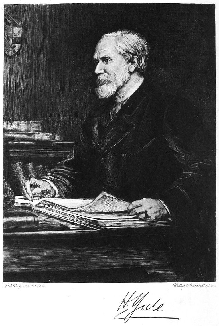 Sir Henry Yule (May 1, 1820 - December 30, 1889)